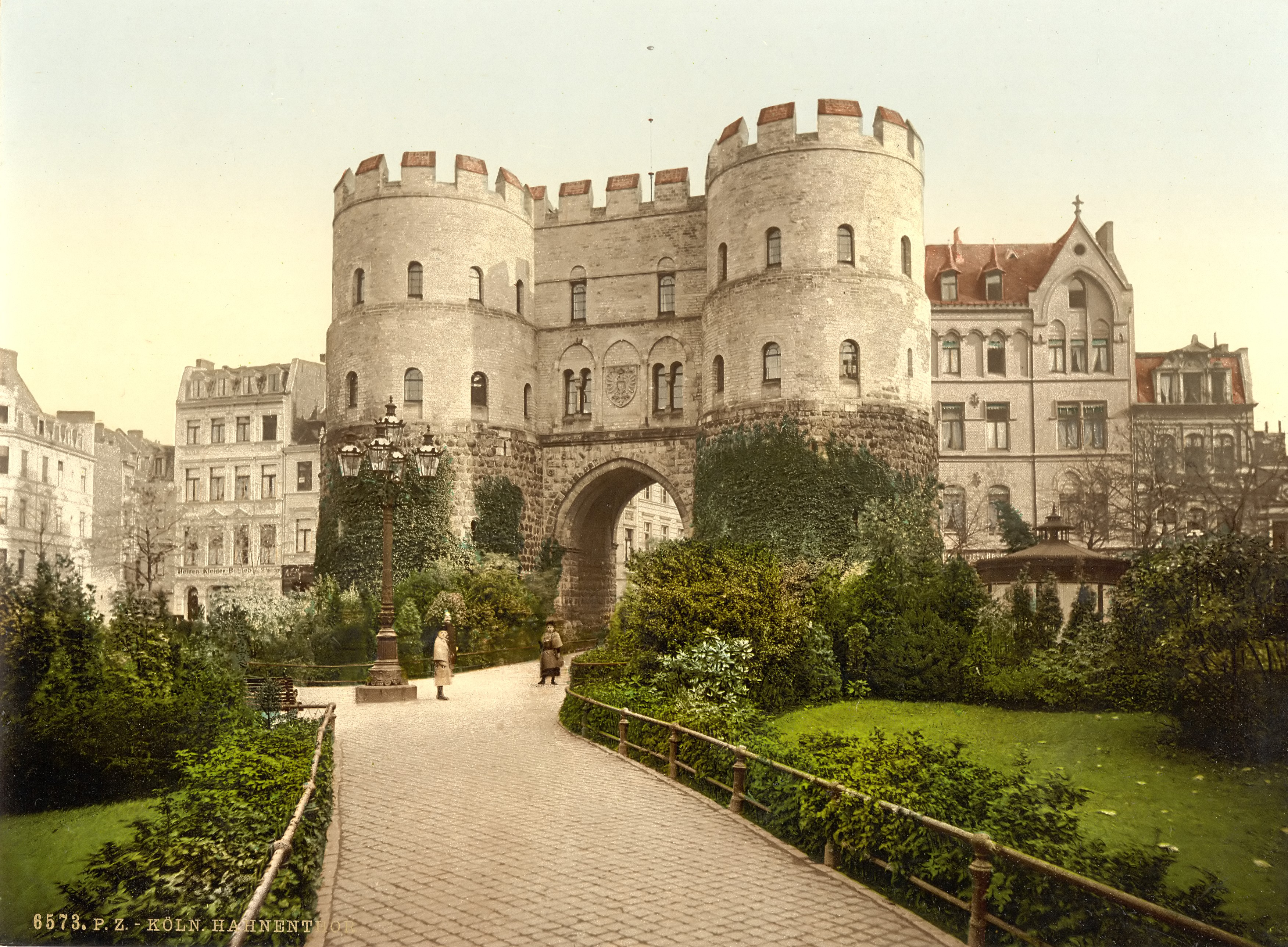 Hahnentor Cologne, Germany, about 1900